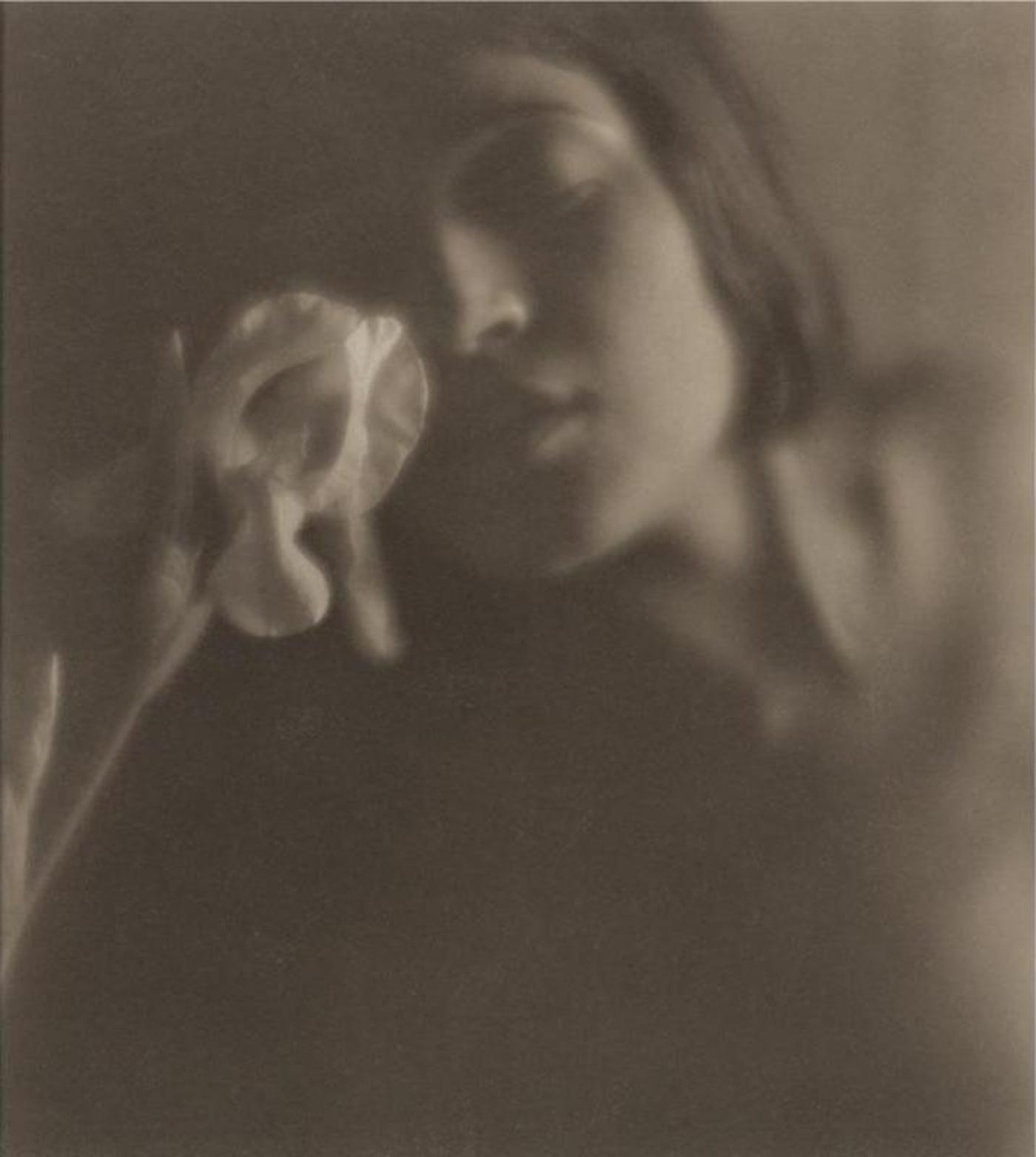 The white Iris (tina modotti)